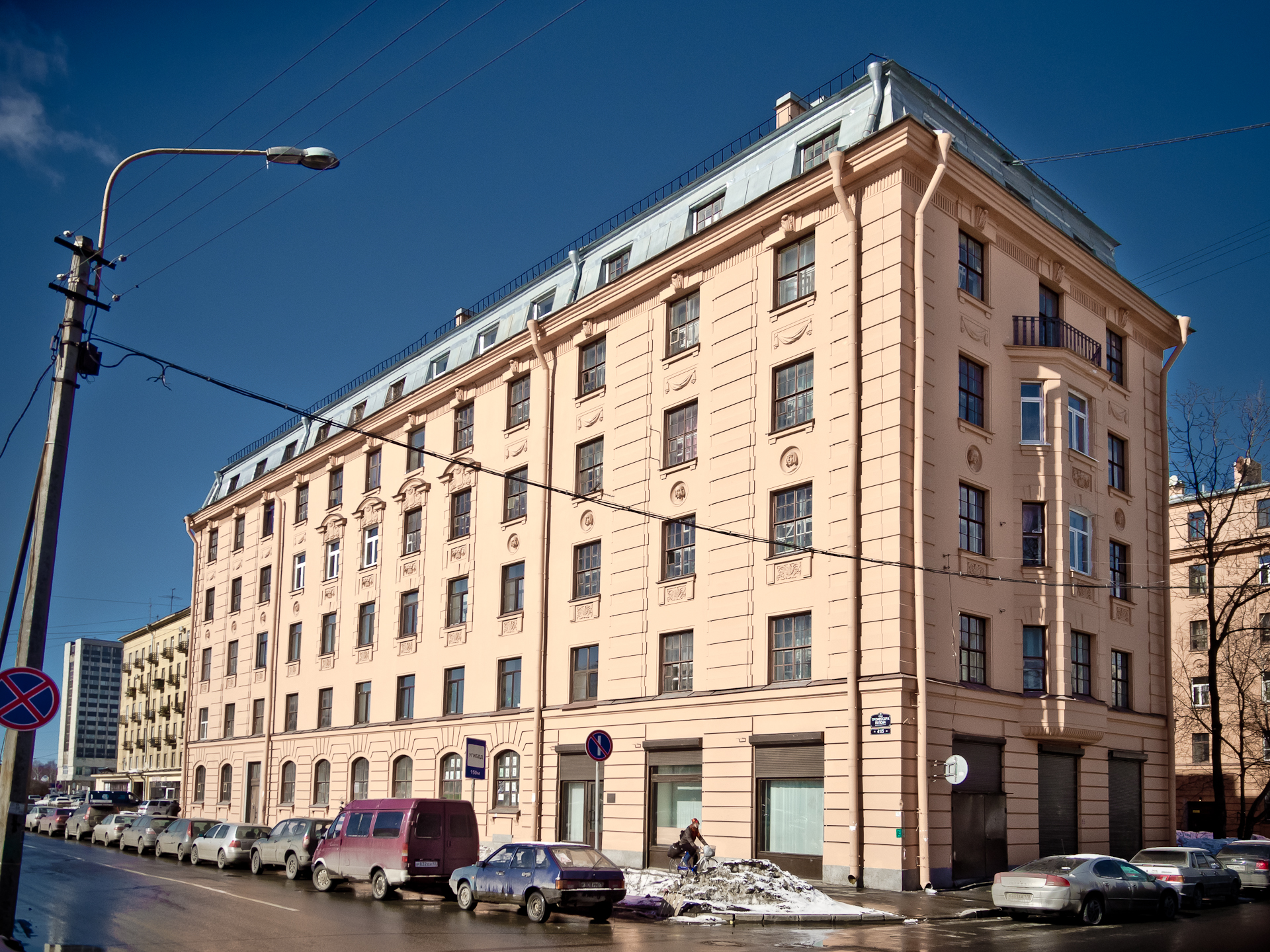 41, Professora Popova street, Saint-Petesburg, Russia.